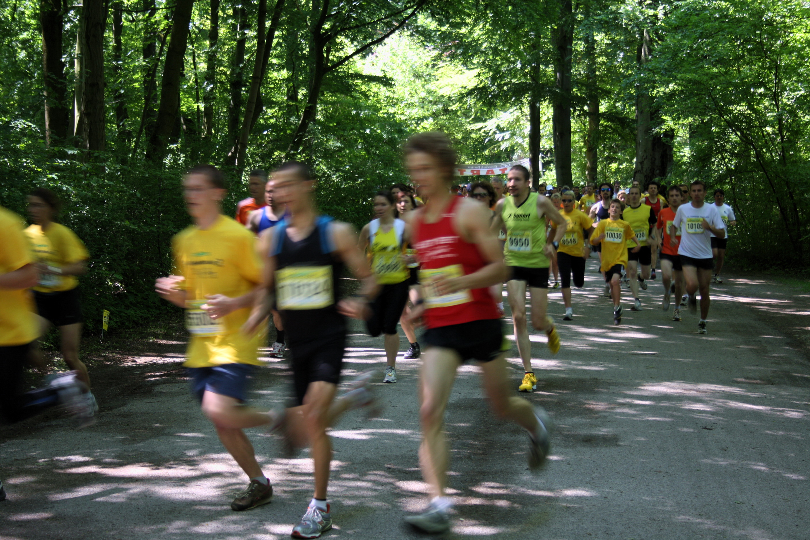 City running in Munich. English Garden.